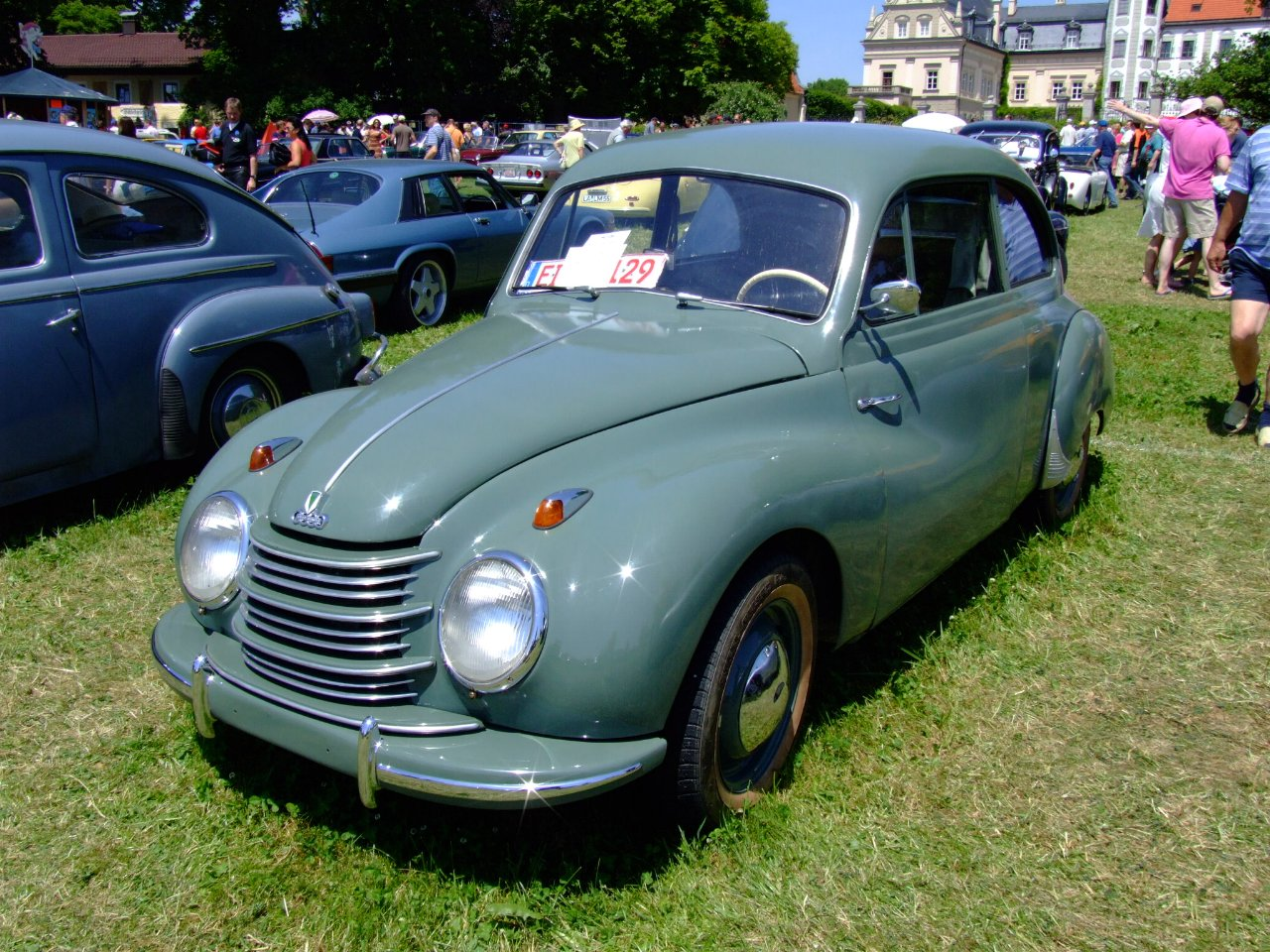 Summary Quelle: selbst fotografiert, 06/2006 Fotograf: Späth Chr. Licensing